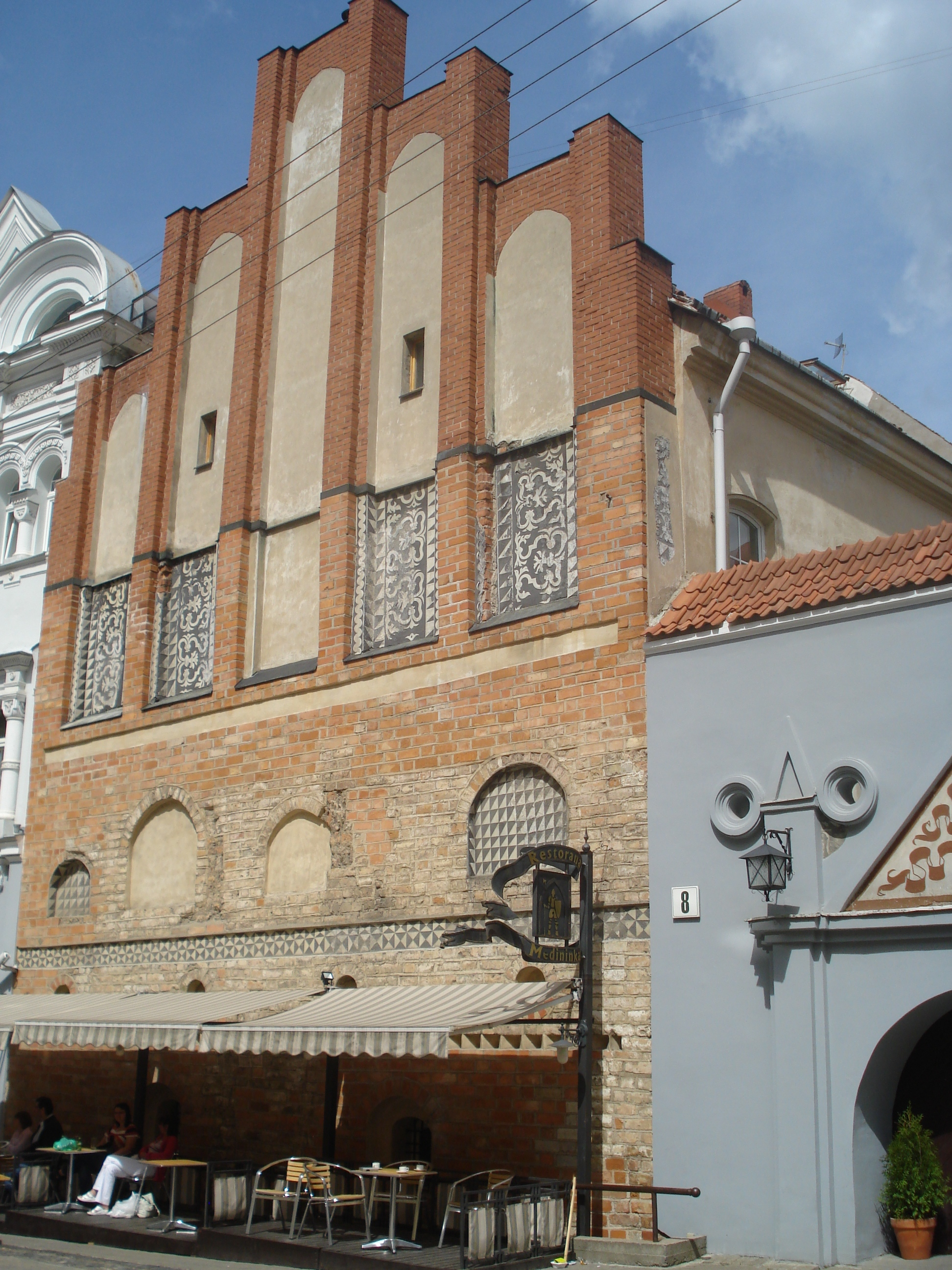 Gothic house in Vilnius (15th-16th centuries), Aušros Vartų g. 8